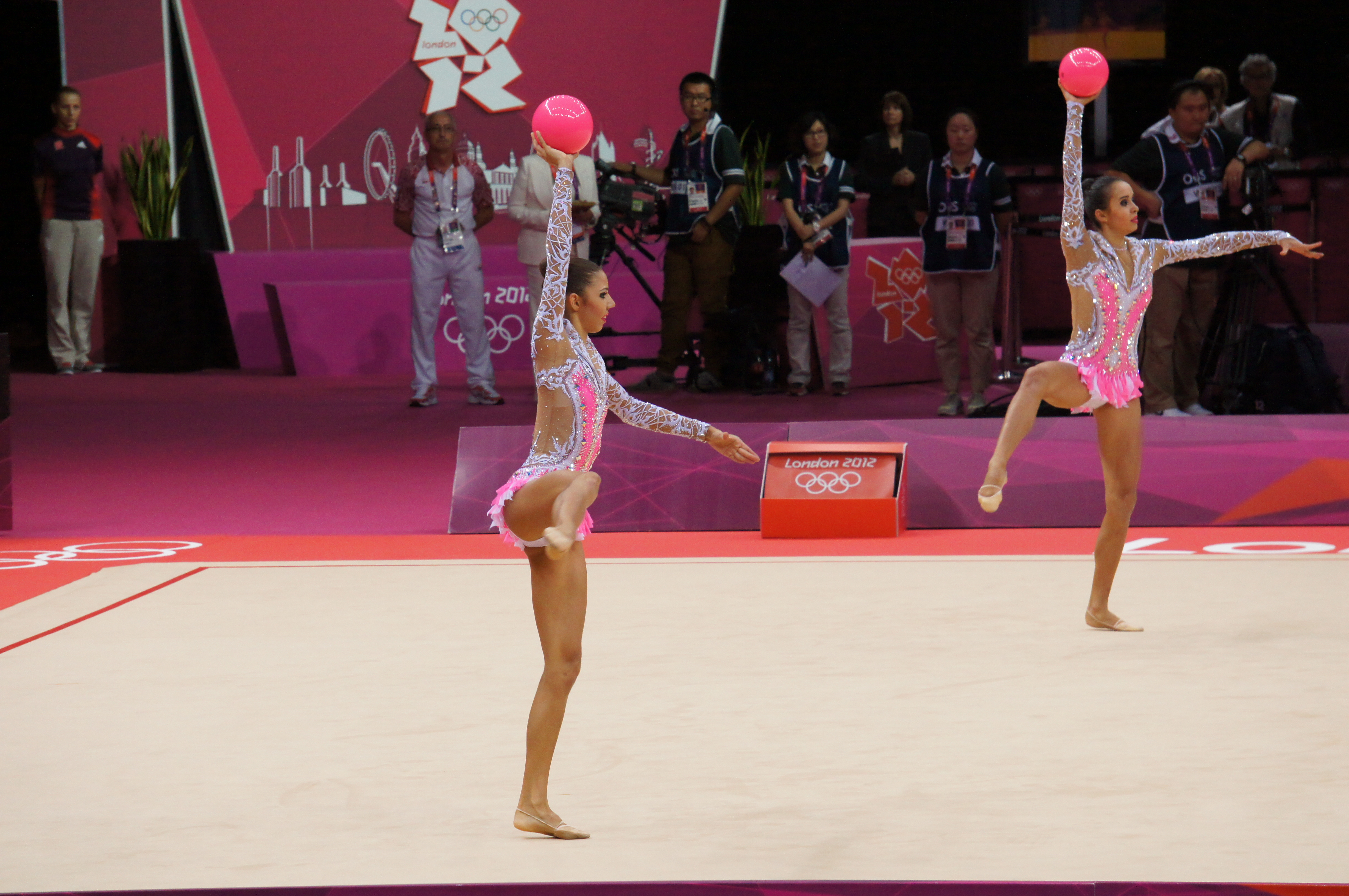 Russian rhythmic gymnastics team at the 2012 Summer Olympics